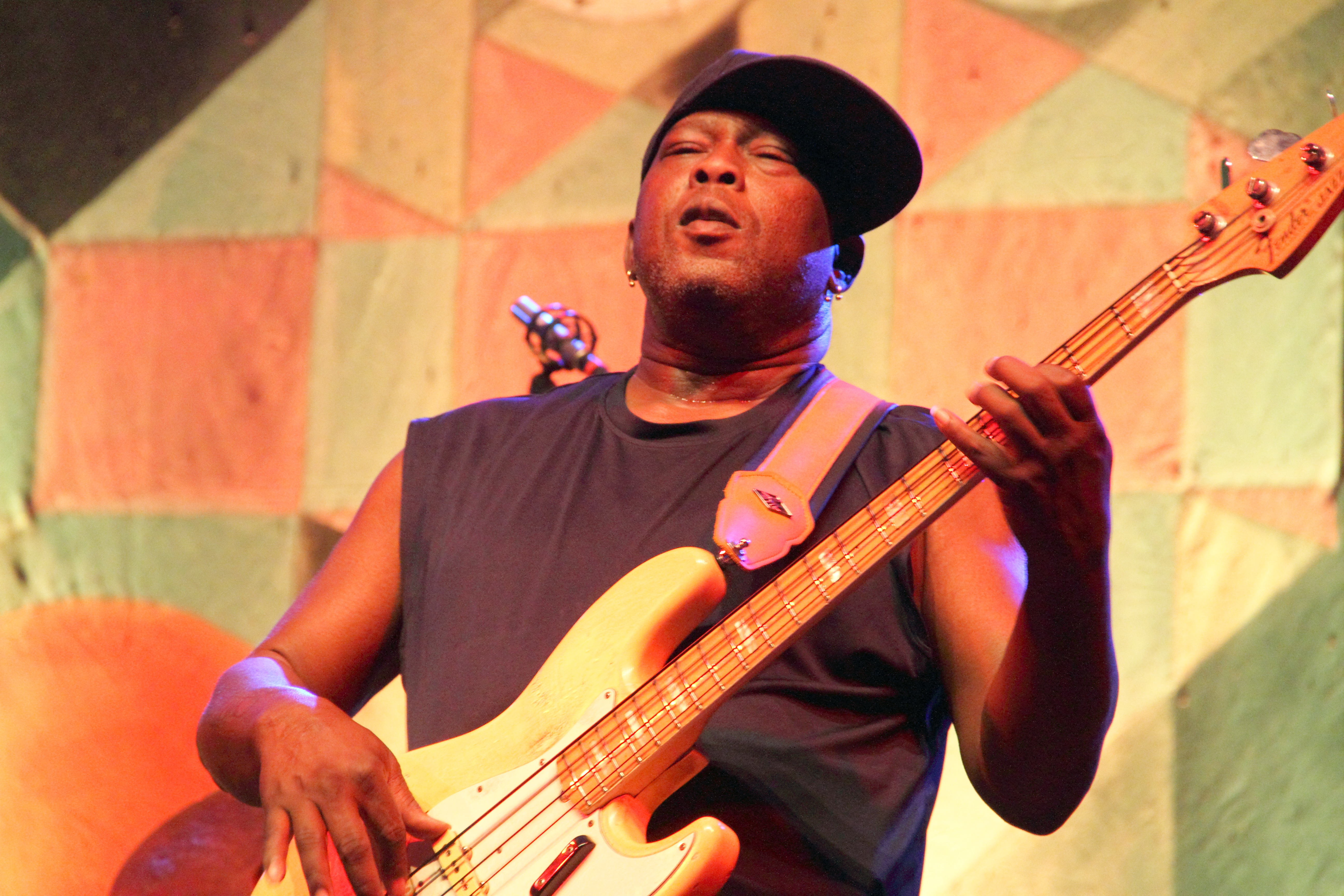 Robbie Shakespeare at concert with Sly Dunbar and Nils Petter Molvær at TFF Rudolstadt, 2015.